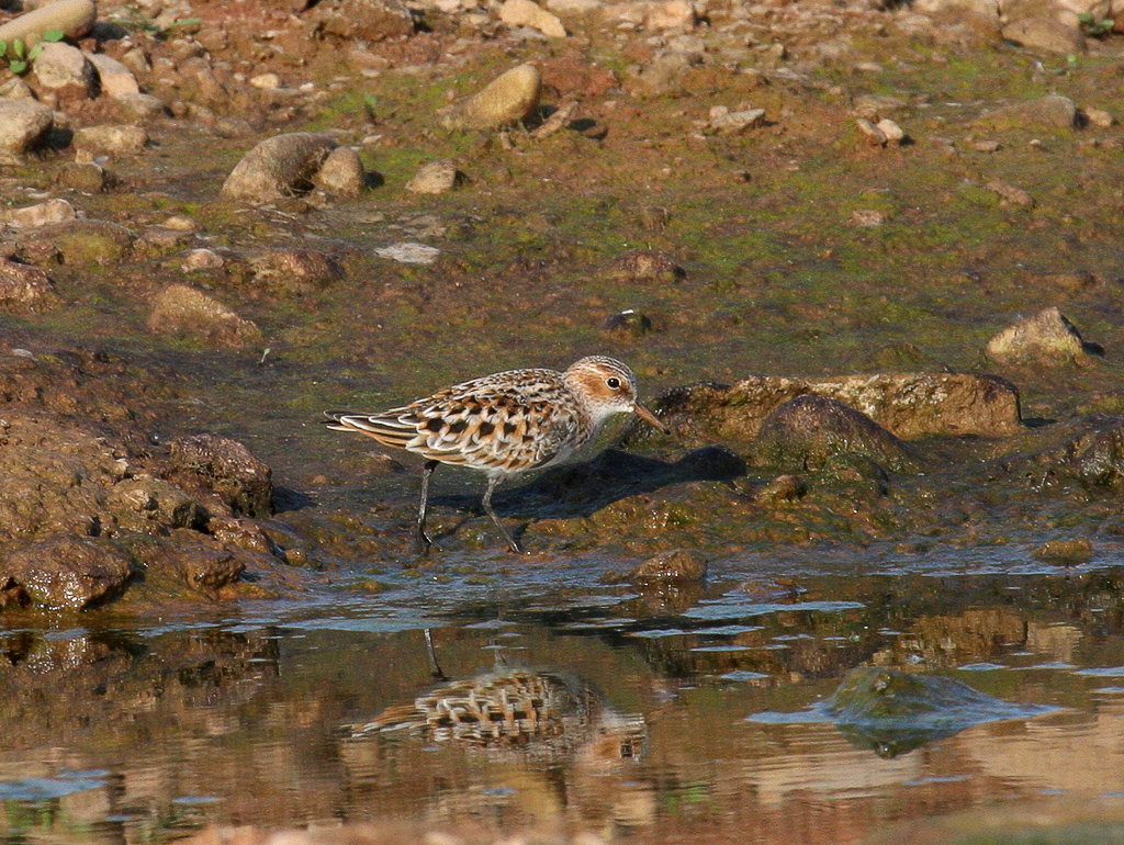 Little Stint